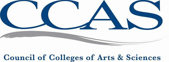 This is the logo for the Council of Colleges of Arts and Sciences (CCAS).